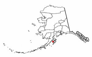 Adapted from Wikipedia's AK borough maps by Seth Ilys.